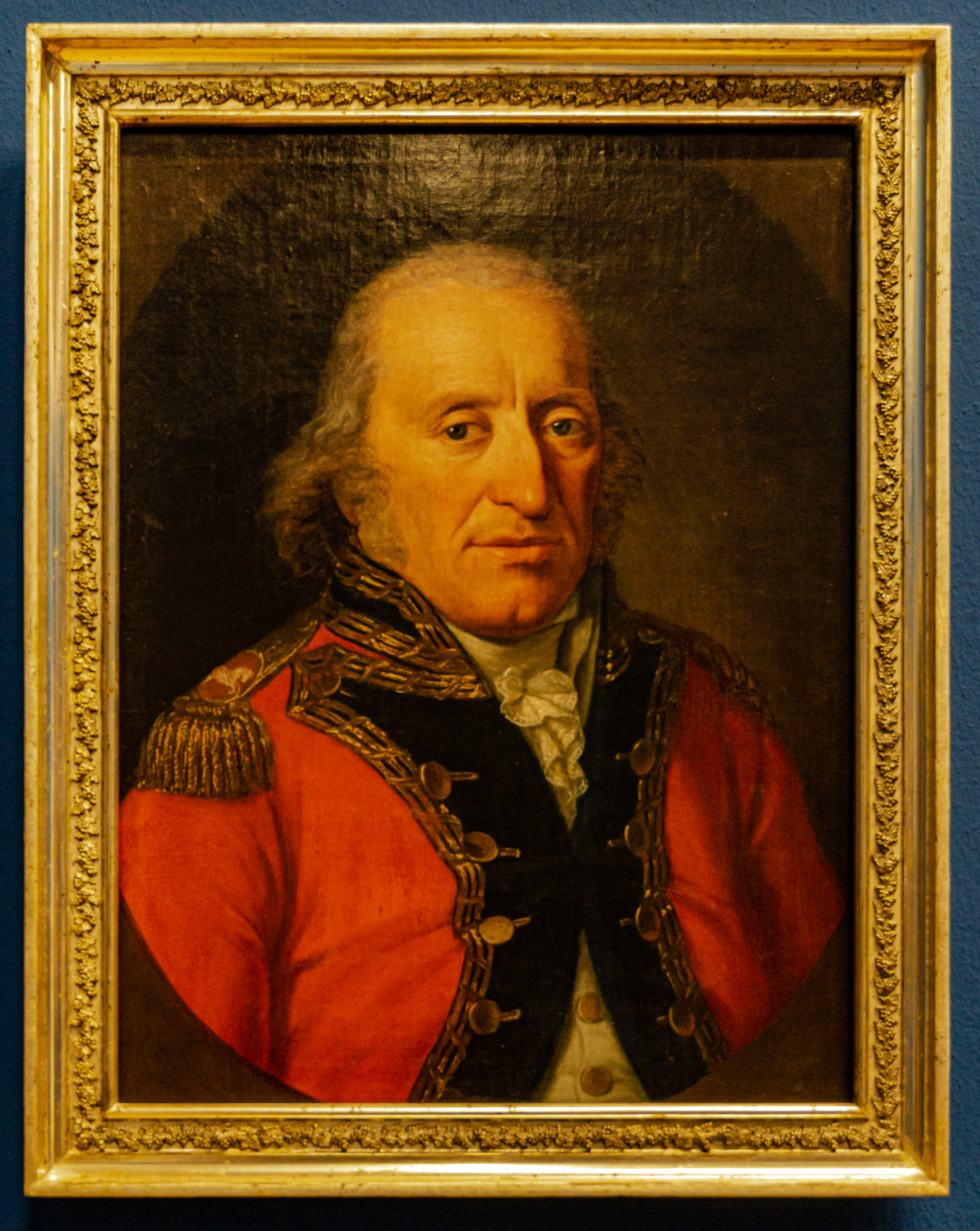 Friedrich Ferdinand von Hörde